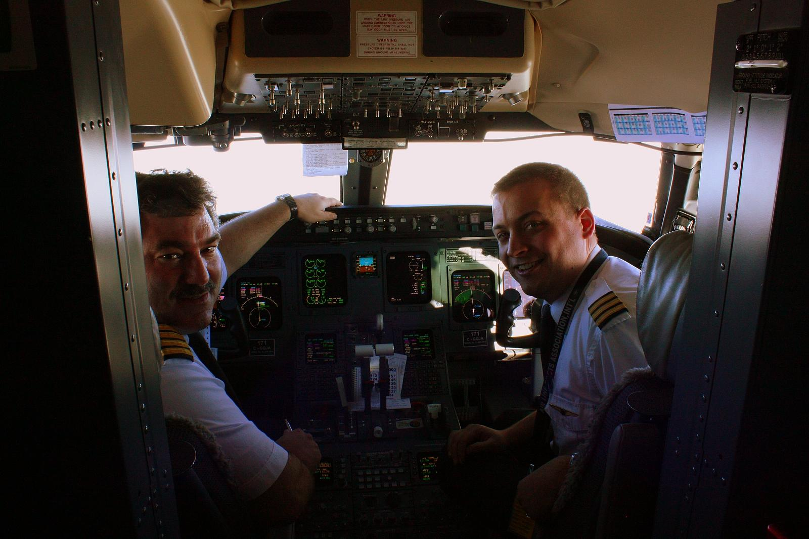 New Years Day 2009. Thanks to Andre for snapping the photo!